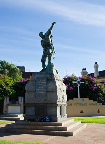 The War Memorial in Broken Hill, New South Wales, Australia.